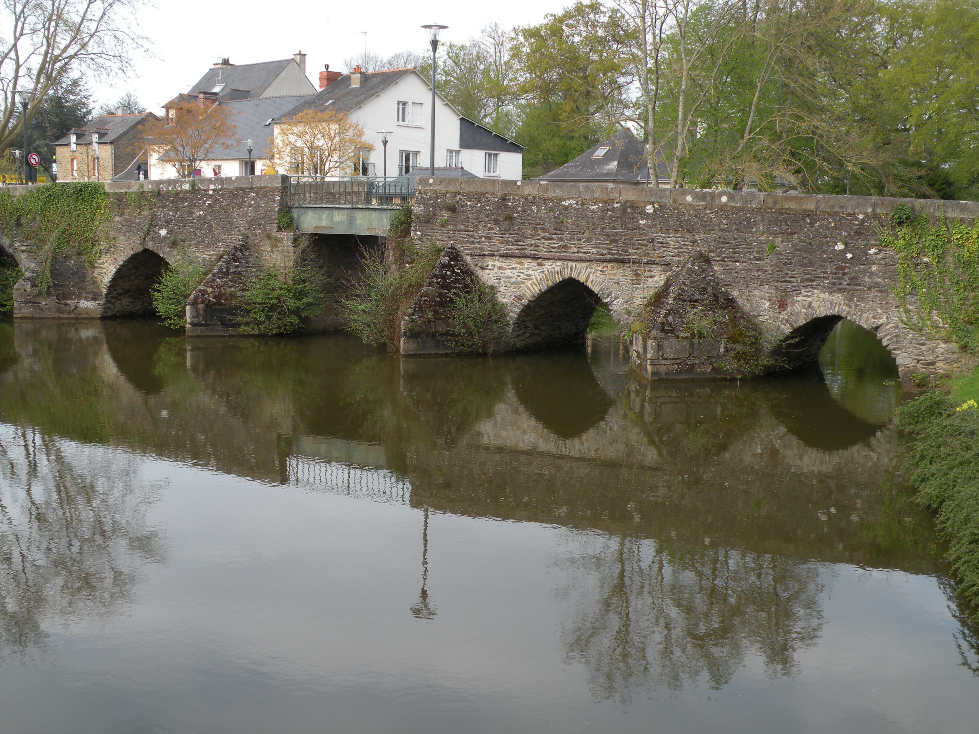 Old bridges of Cesson-Sévigné over Vilaine river.